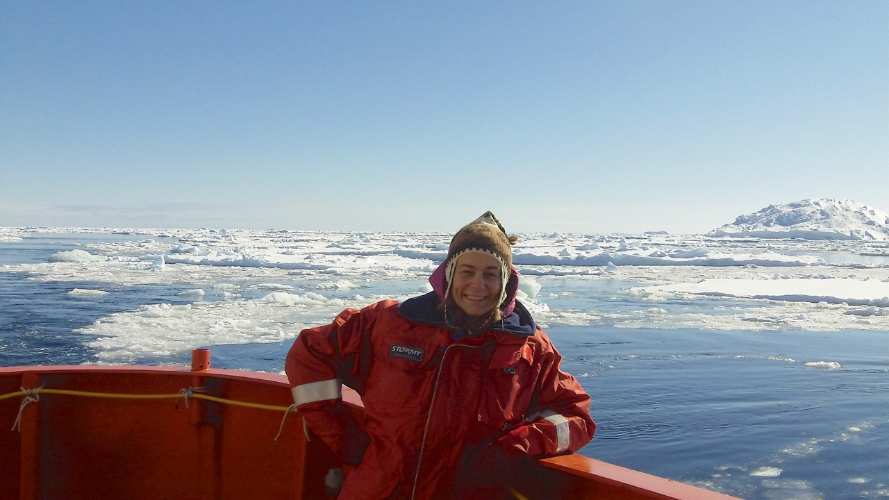 Leanne Armand, George V Coast, Antarctica, Voyage NBP14-02.